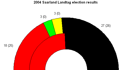 Results of the 1999 (inner ring) and 2004 (outer ring) Landtag election in Saarland, in terms of parliament seats: SPD in red, CDU in black, Greens in green, FDP in yellow.